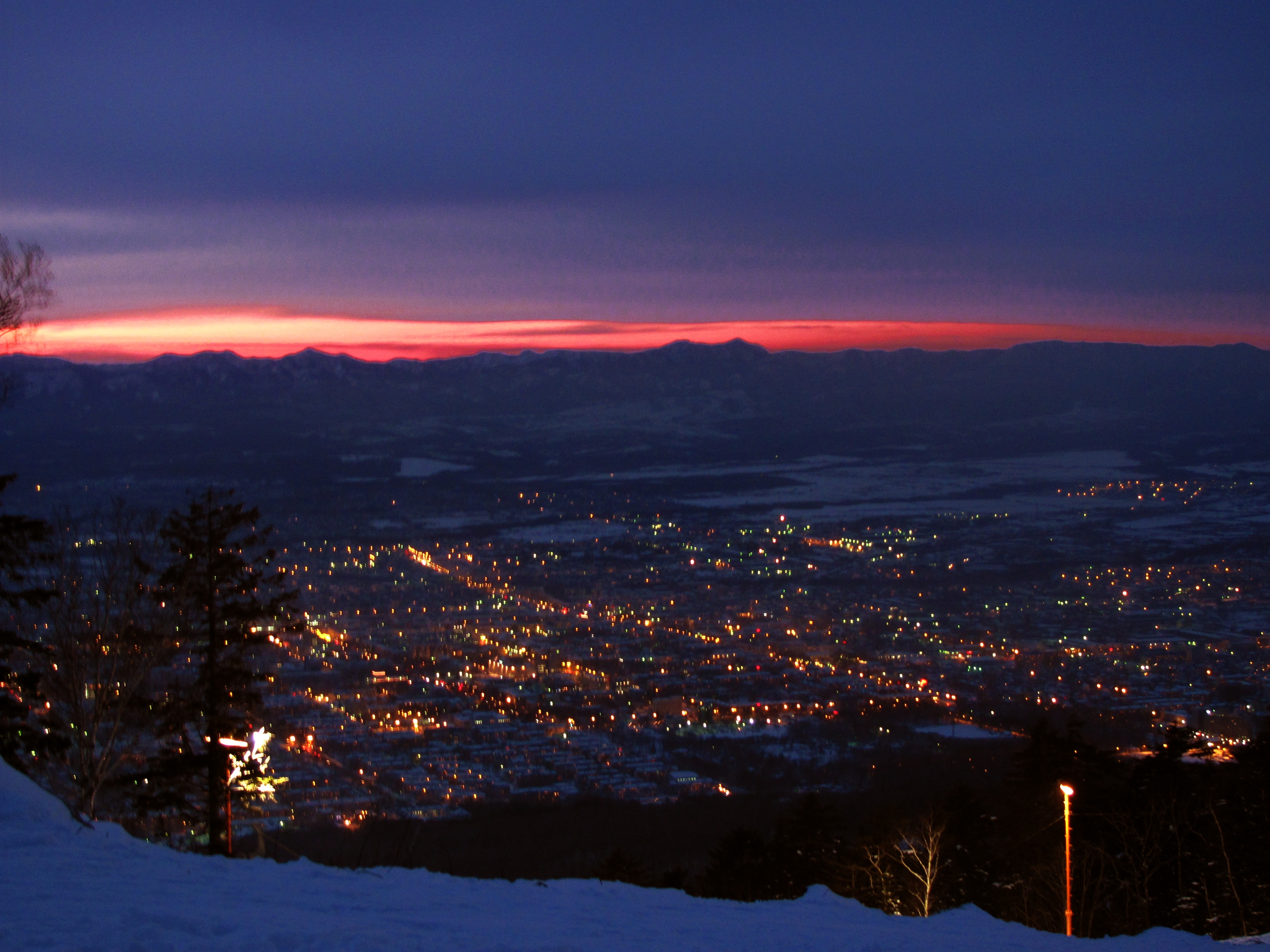 View of Yuzhno-Sakhalinsk from Gorny Vozduh